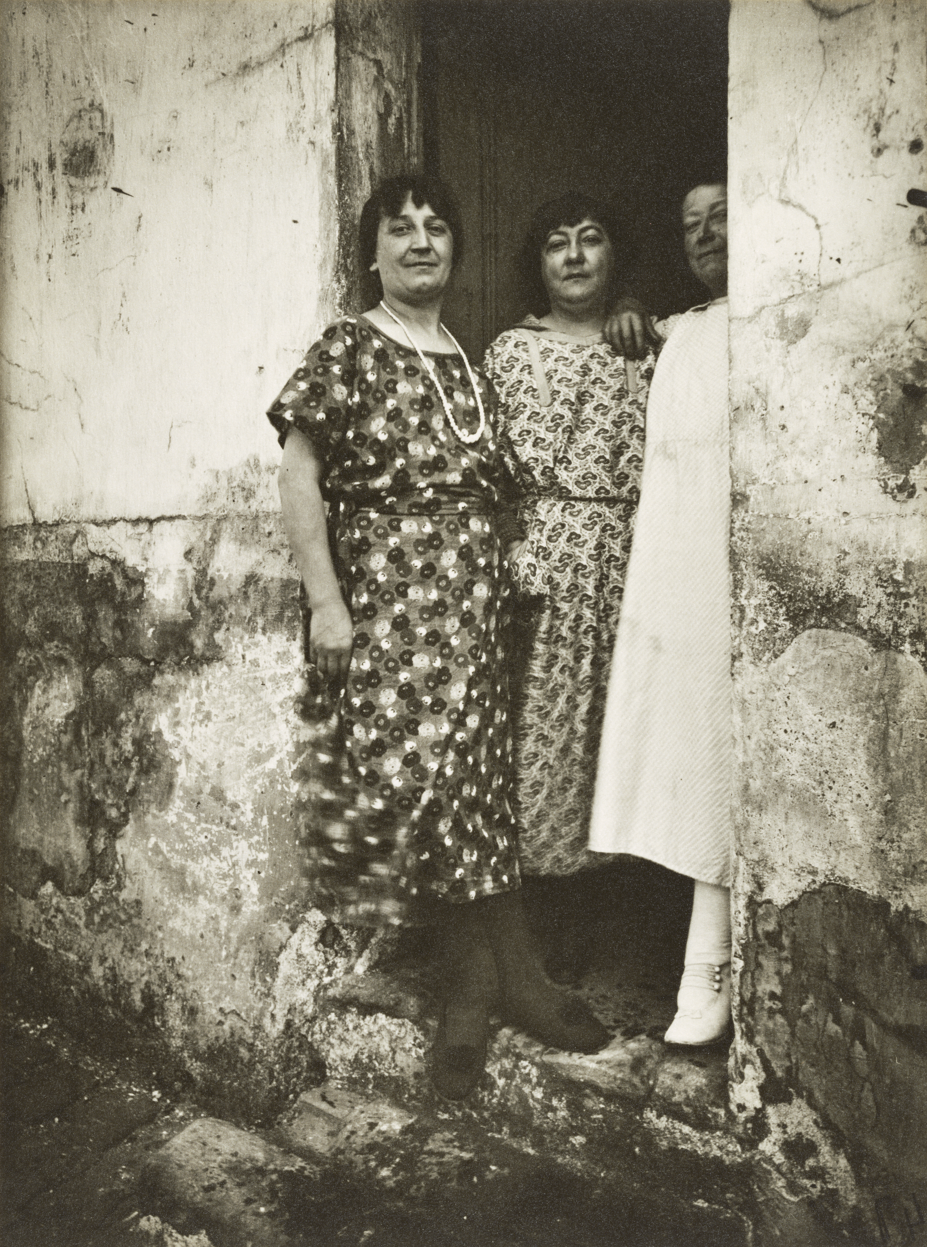 The three amiable women posing in the doorway of a dilapidated building convey an image of friendship and leisure. Their mid-length dresses and covered legs belie the fact that they are prostitutes. Although Eugène Atget was commissioned to photograph prostitutes in 1921 by a customer writing a book on the subject, scholars have not explained his return to the subject in 1924. Berenice Abbott, who diligently worked to purchase many of Atget's negatives and prints after his death in 1927, printed this image about twenty-five years after Atget made the photograph. Abbott once remarked that "the photographs heralded as art in France in the early part of the century were the worst arty pictorials that existed anywhere." Especially offensive to Abbott was the way photographers presented their female subjects as inane pictures of the "pretty." In Atget's work, everyone from small shopkeepers to tradesmen and prostitutes was treated with dignity, an approach that Abbott defined as the "shock of realism."